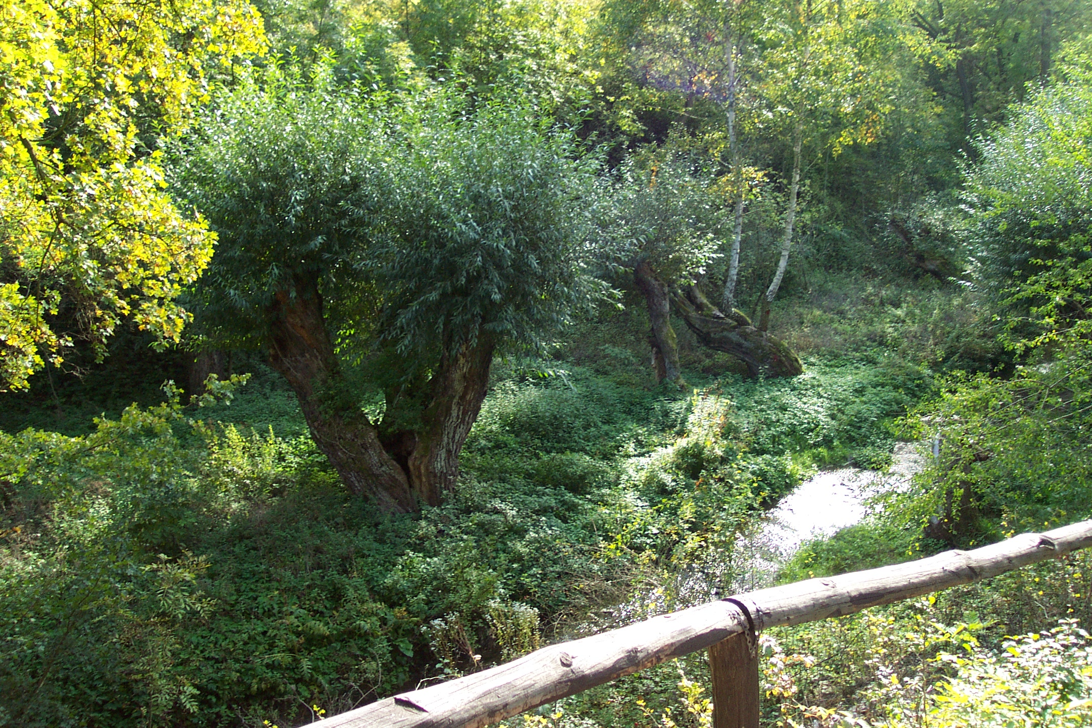 Dalejský potok creek in Prague